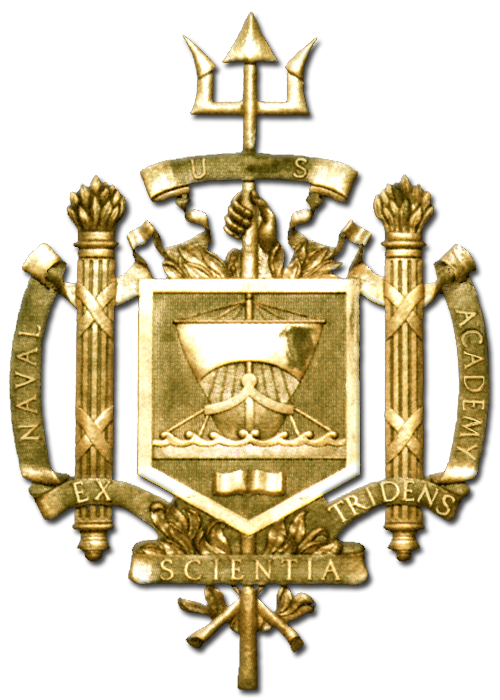 Seal or Crest of the United States Naval Academy